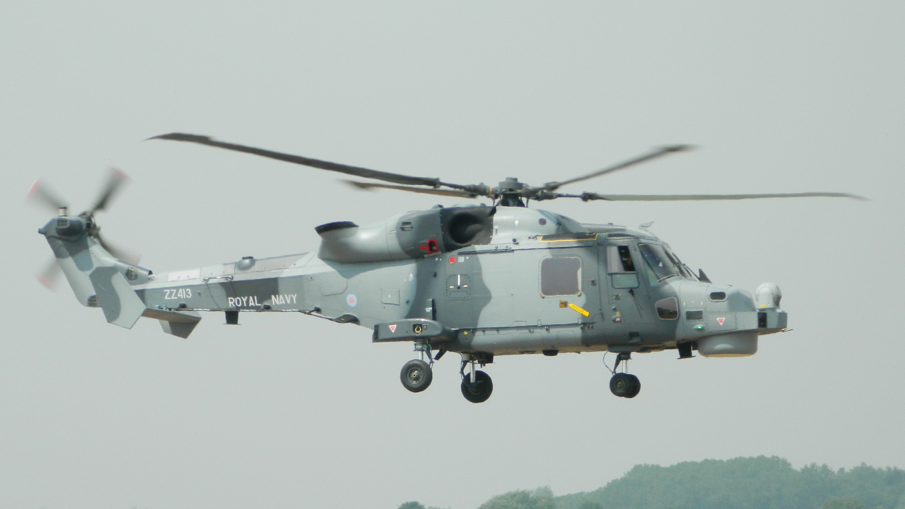 Royal Navy AgustaWestlandWildcat serial number ZZ413 departs RAF Fairford on the Royal International Air Tattoo departure day Monday 22 July 2013